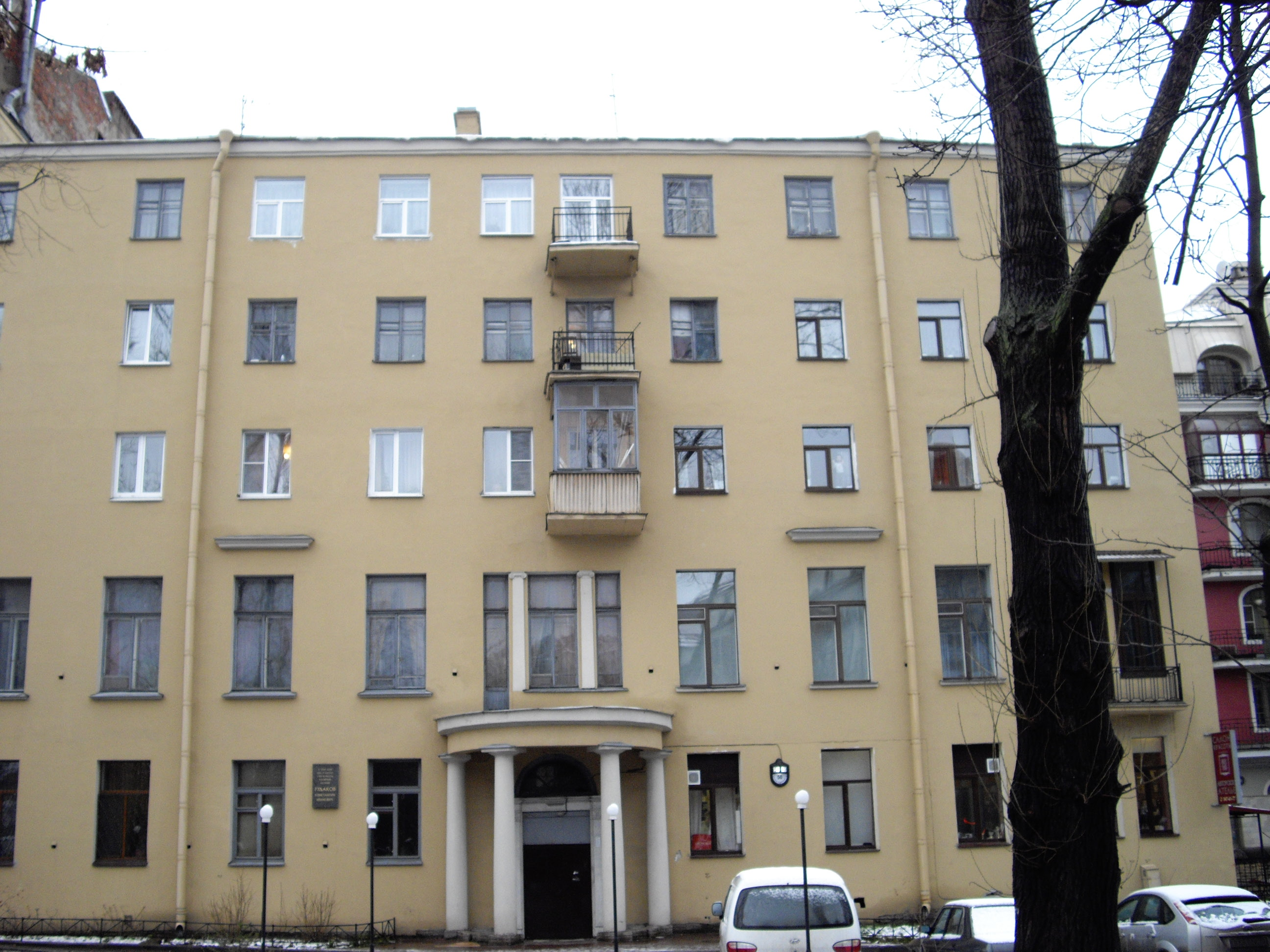 50, Bolshaya Pushkarskaya street (Saint Petersburg, Russia). Former Savich house (architect Sinyaver, 1910), later reconstructed.